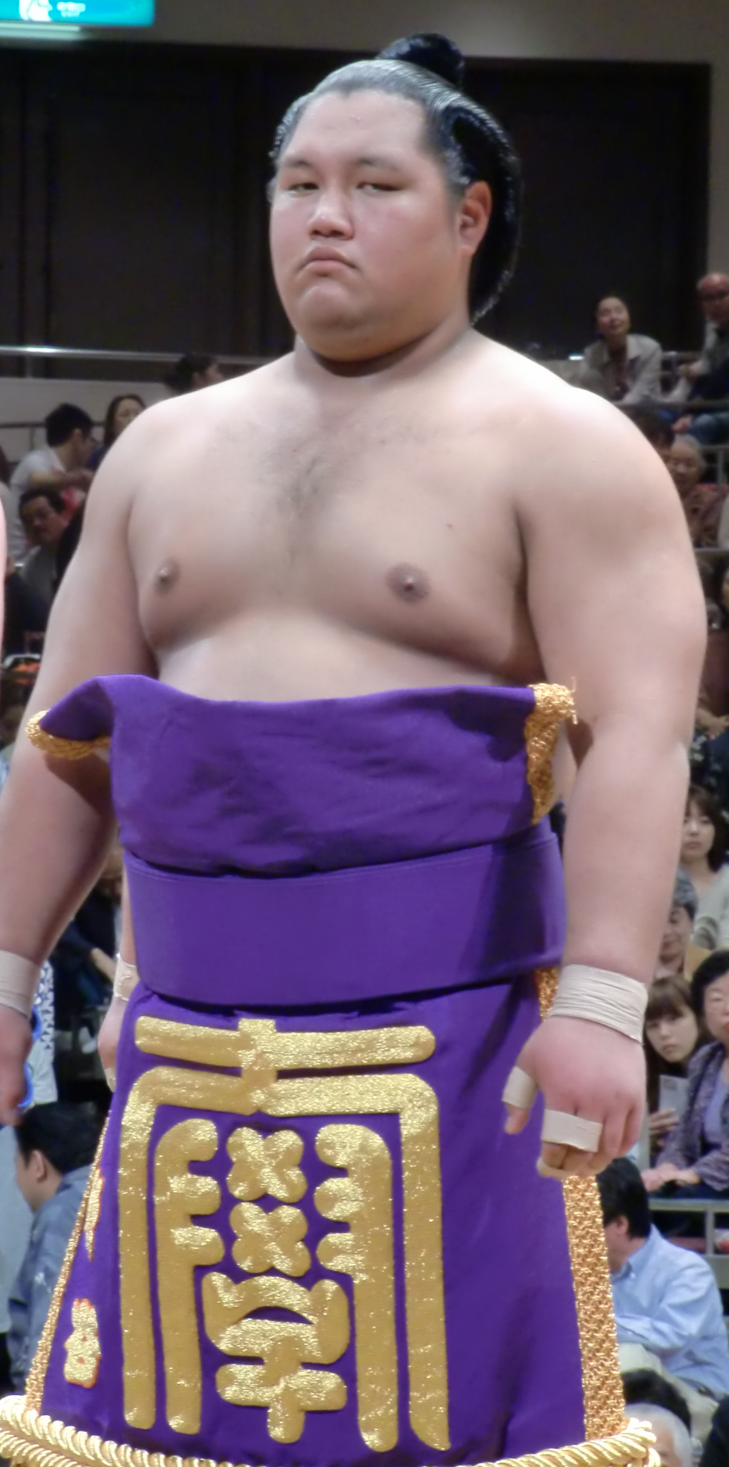 taken at 2010 May tournament. Matsutani is now known as Shōhōzan.